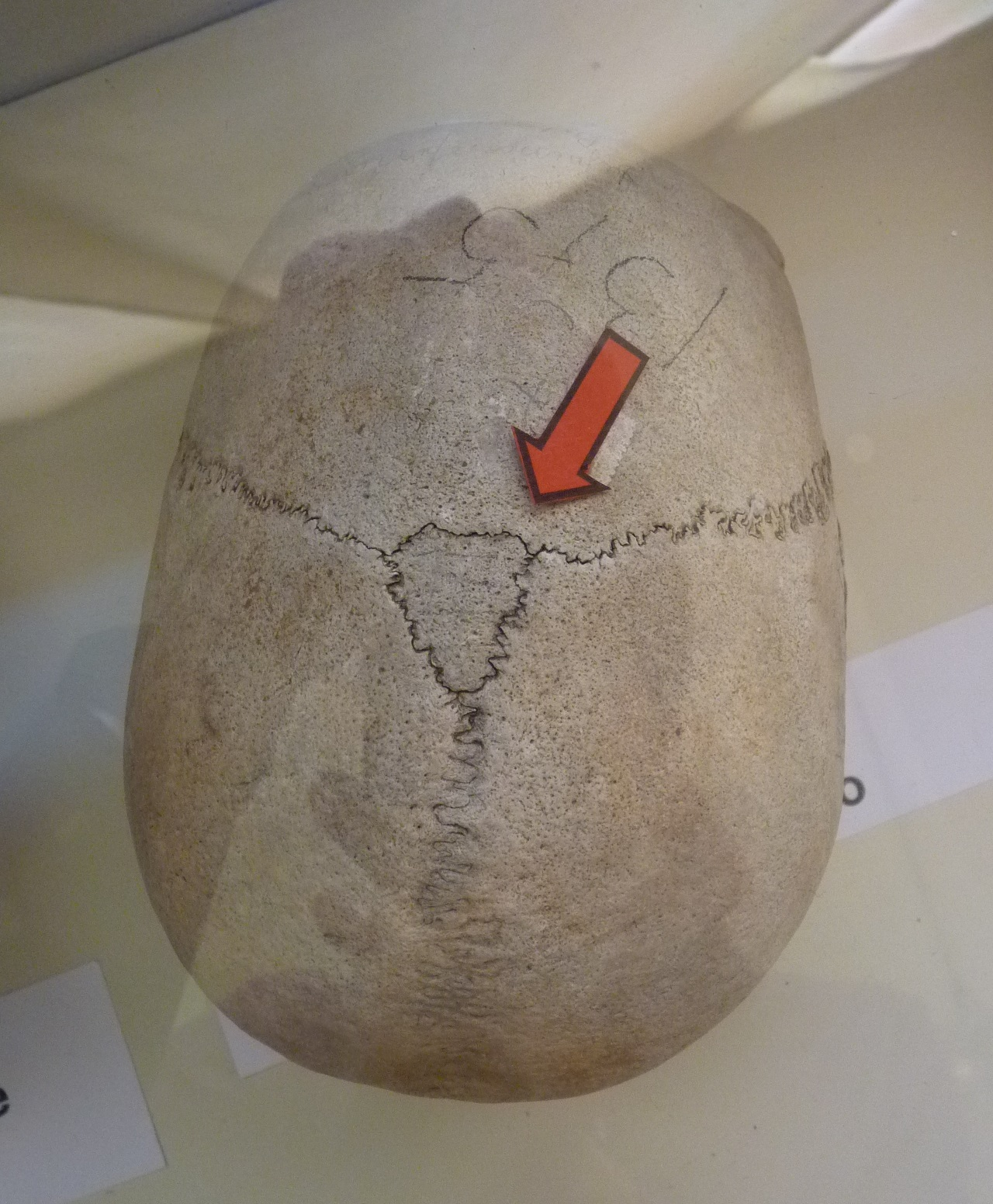 Human skull (dorsal view, the face is oriented toward the top of the picture) showing a bregmatic bone (a wormian bone between the frontal and coronal sutures). Museum of Anthropology of the University of Bologna (Italy).